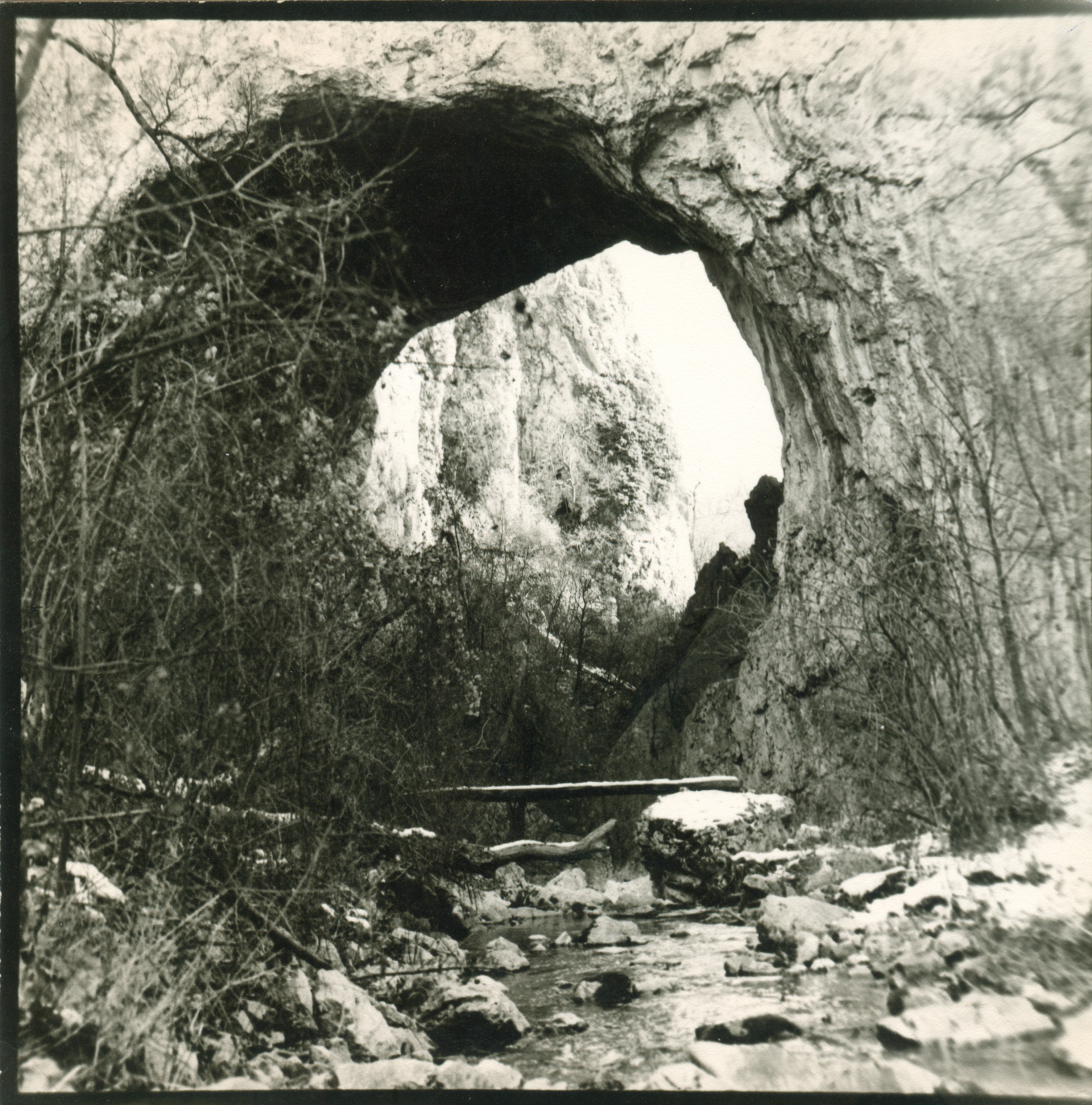 Vratna River Canyon near Negotin in East Serbia Srpski (latinica): Vratnjanske kapije osamdesetih godina XX veka